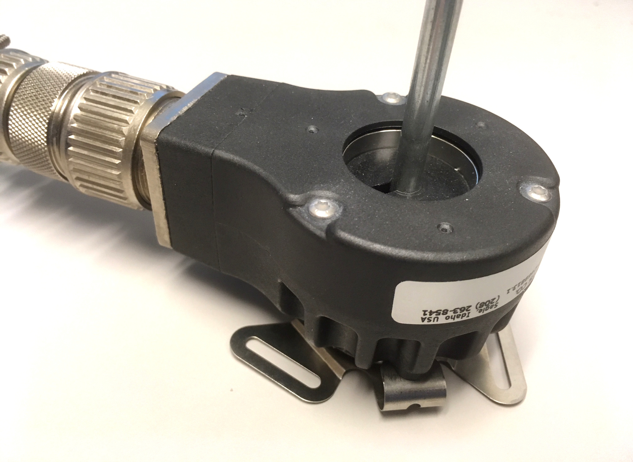 A rotary incremental encoder with shaft attached to its thru-bore opening (Encoder Products model 25T).